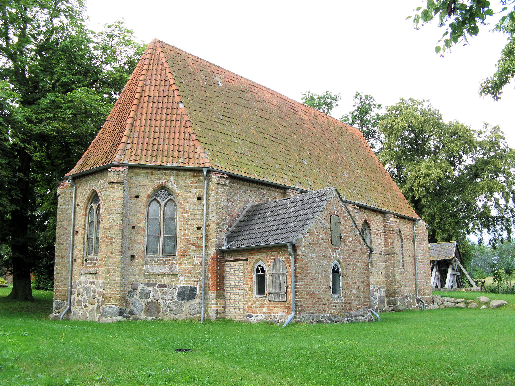 Church in Groß Grenz, disctrict Bad Doberan, Mecklenburg-Vorpommern, Germany